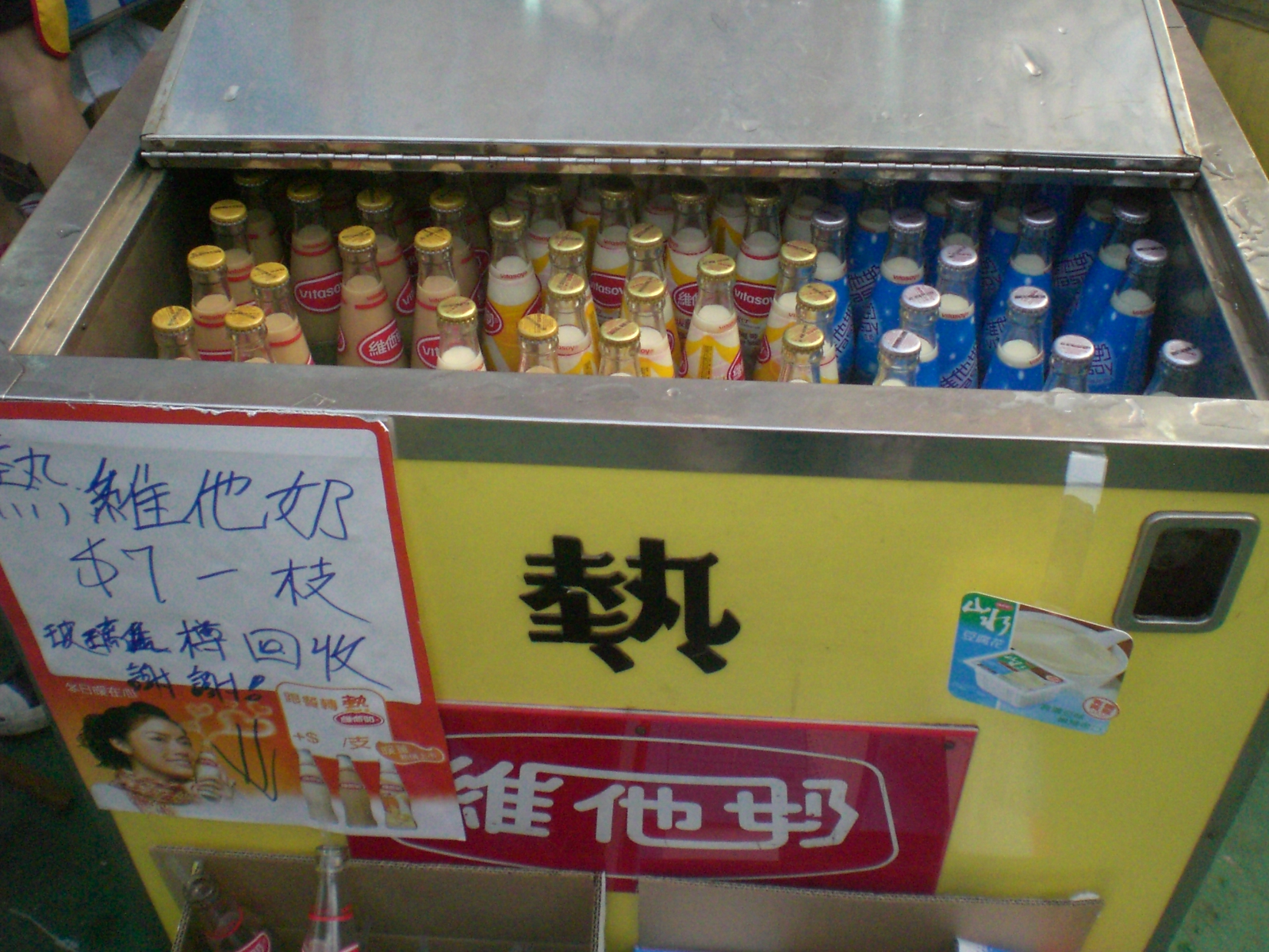 又一村 熱zh:維他奶